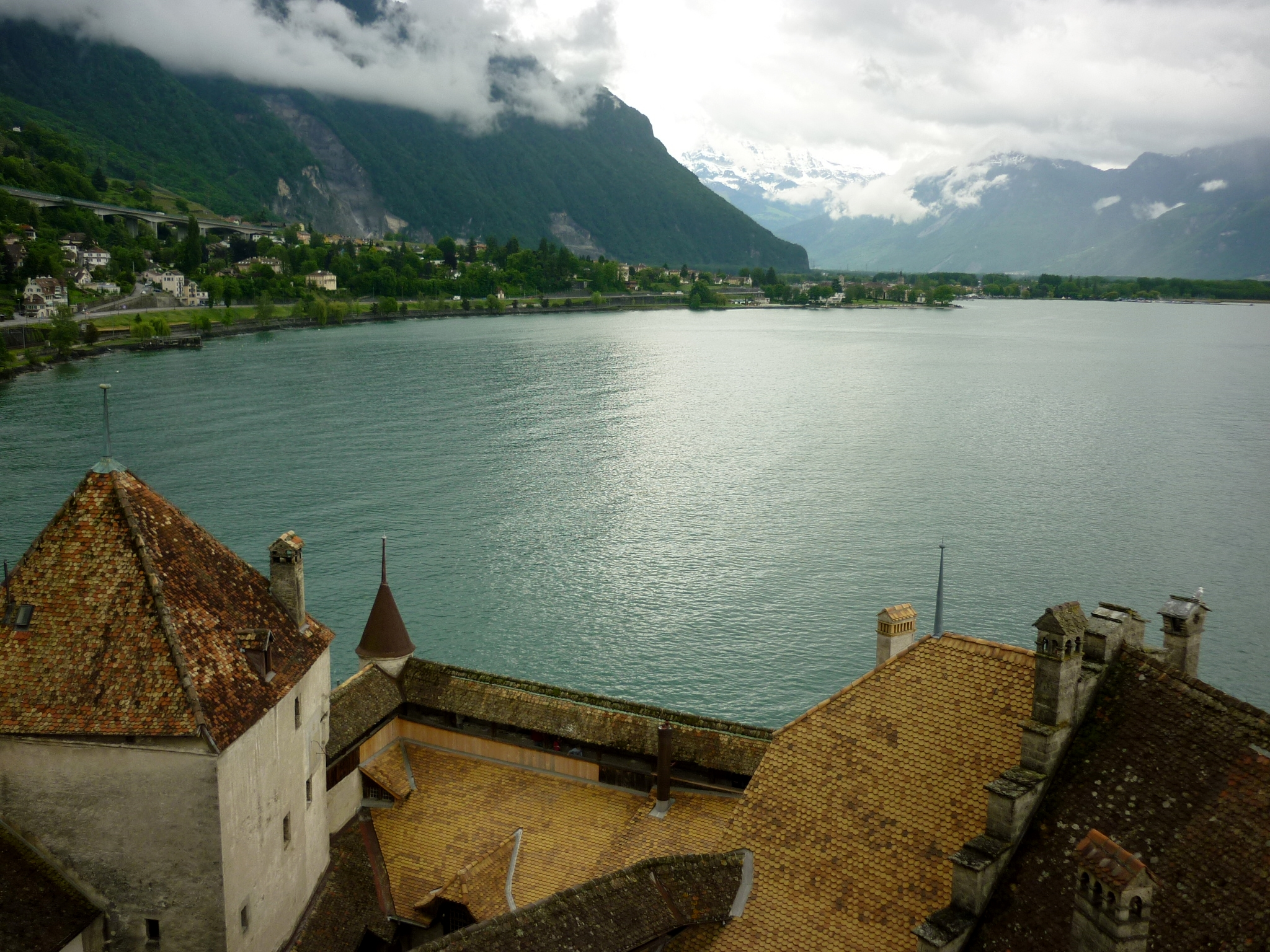 Lake Geneva from moated castle Chillon